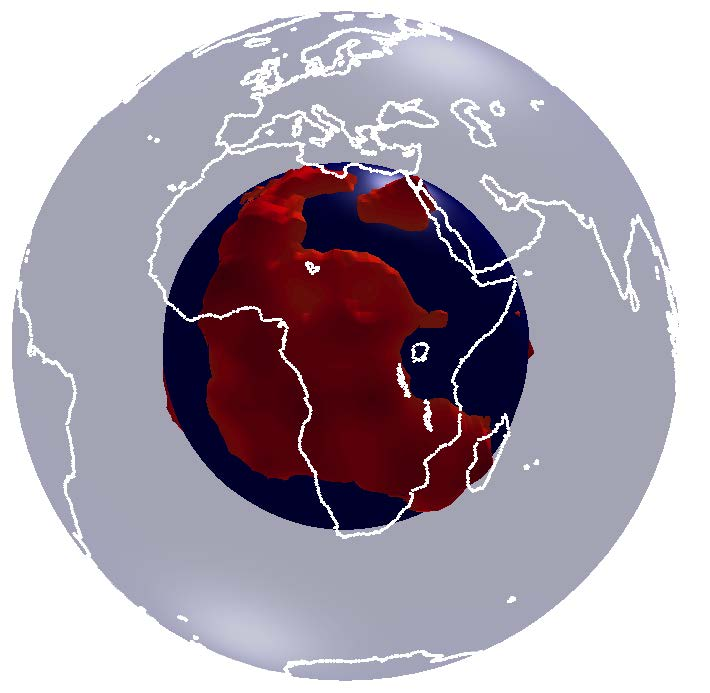 Cartoon of the African LLSVP